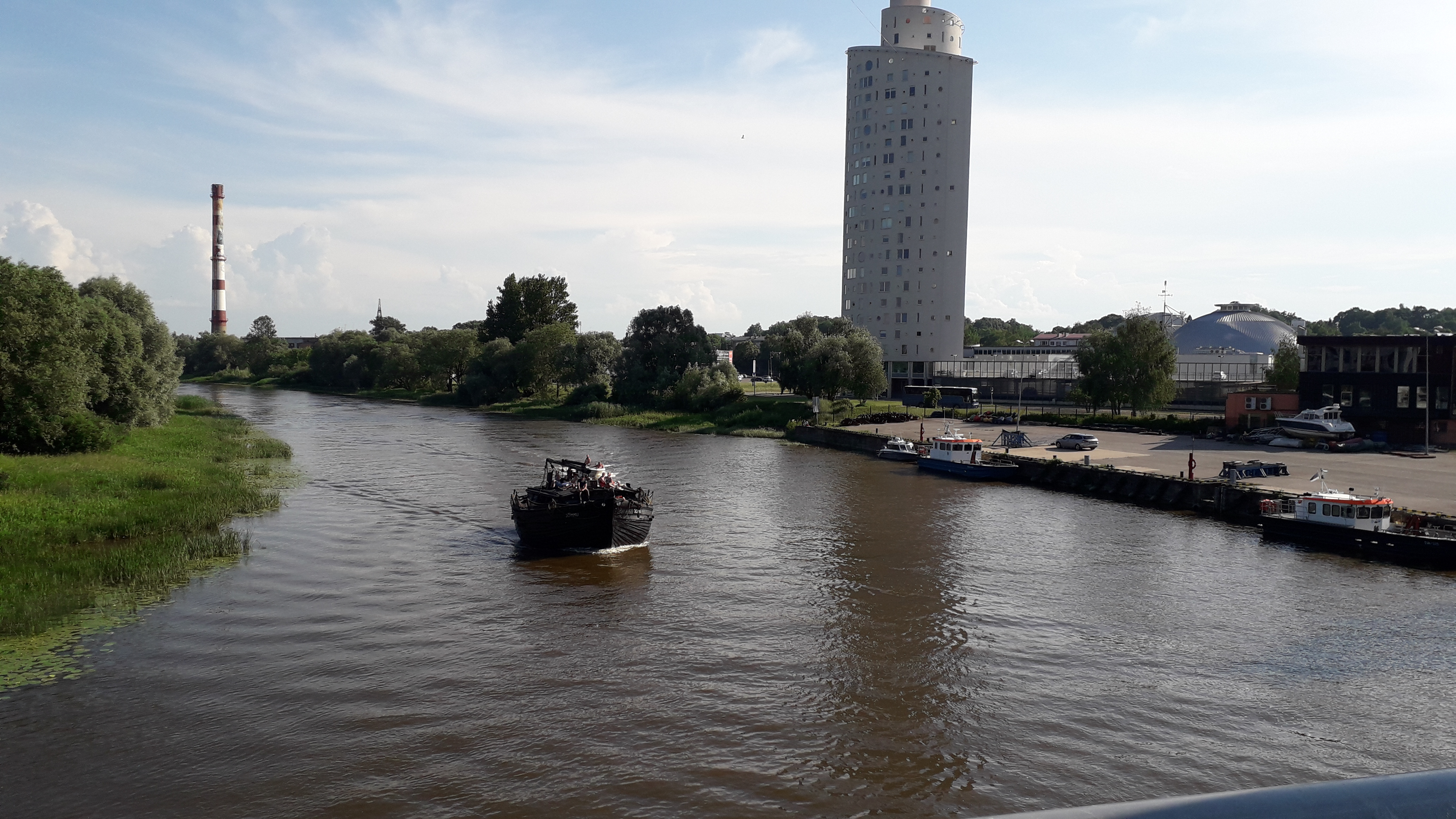 Emajõgi